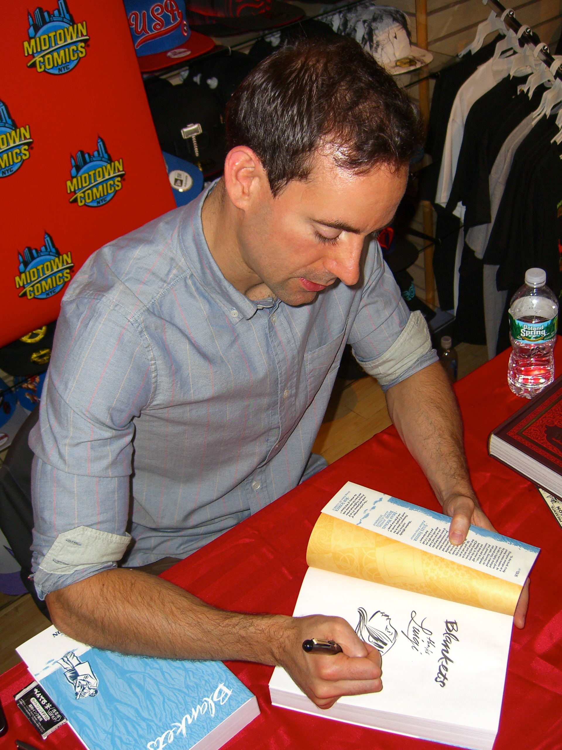 Graphic novelist Craig Thompson at a September 20, 2011 signing for his book, Habibi at Midtown Comics Downtown in Manhattan. In the photo, Thompson is sketching an image of Raina, the female lead of his previous work, Blankets, in the photographer's copy of that book. He made a sketch in each book presented to him by fans at the signing. Photographed by Luigi Novi. This photo is not in the public domain. It may, however, be used, modified and published for any purpose, free of charge, only if the photographer is properly credited, either by linking the photograph to this page, or with an easily visible credit to the photographer placed near the photo in each instance in which it is used. (See licensing information below.) Publication of this photo without this proper attribution constitutes copyright infringement. If you have any questions, you can contact me on my Wikipedia Talk Page.